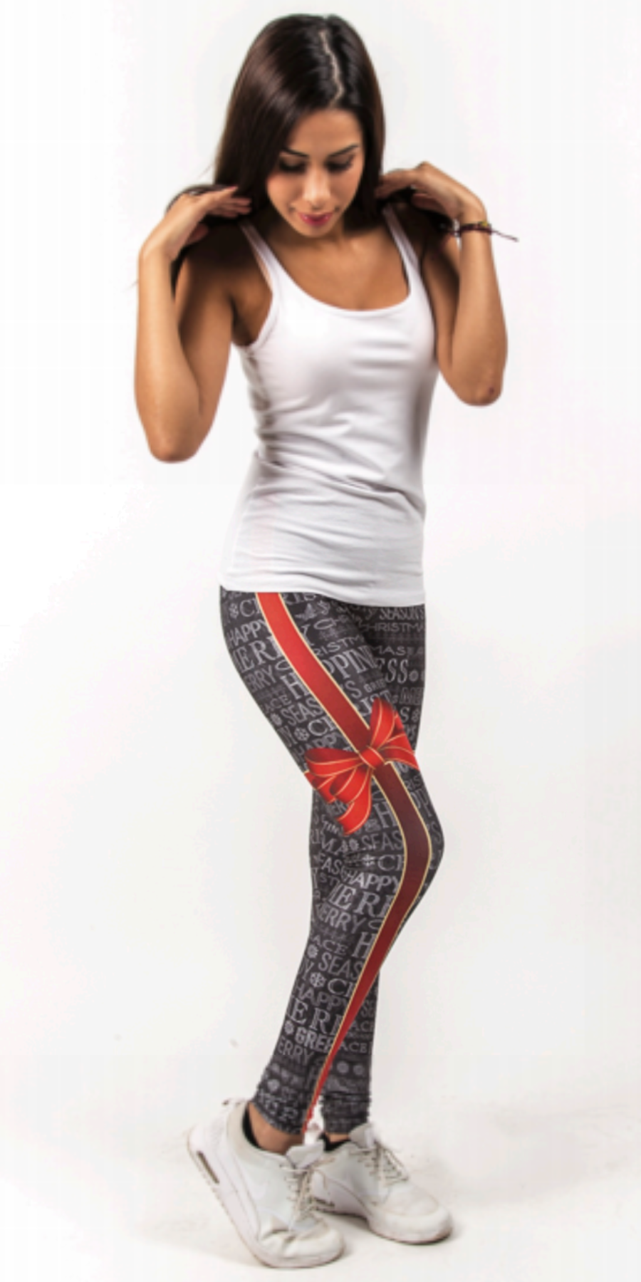 Woman wearing Holiday print leggings from Tilted Friday Clothing (